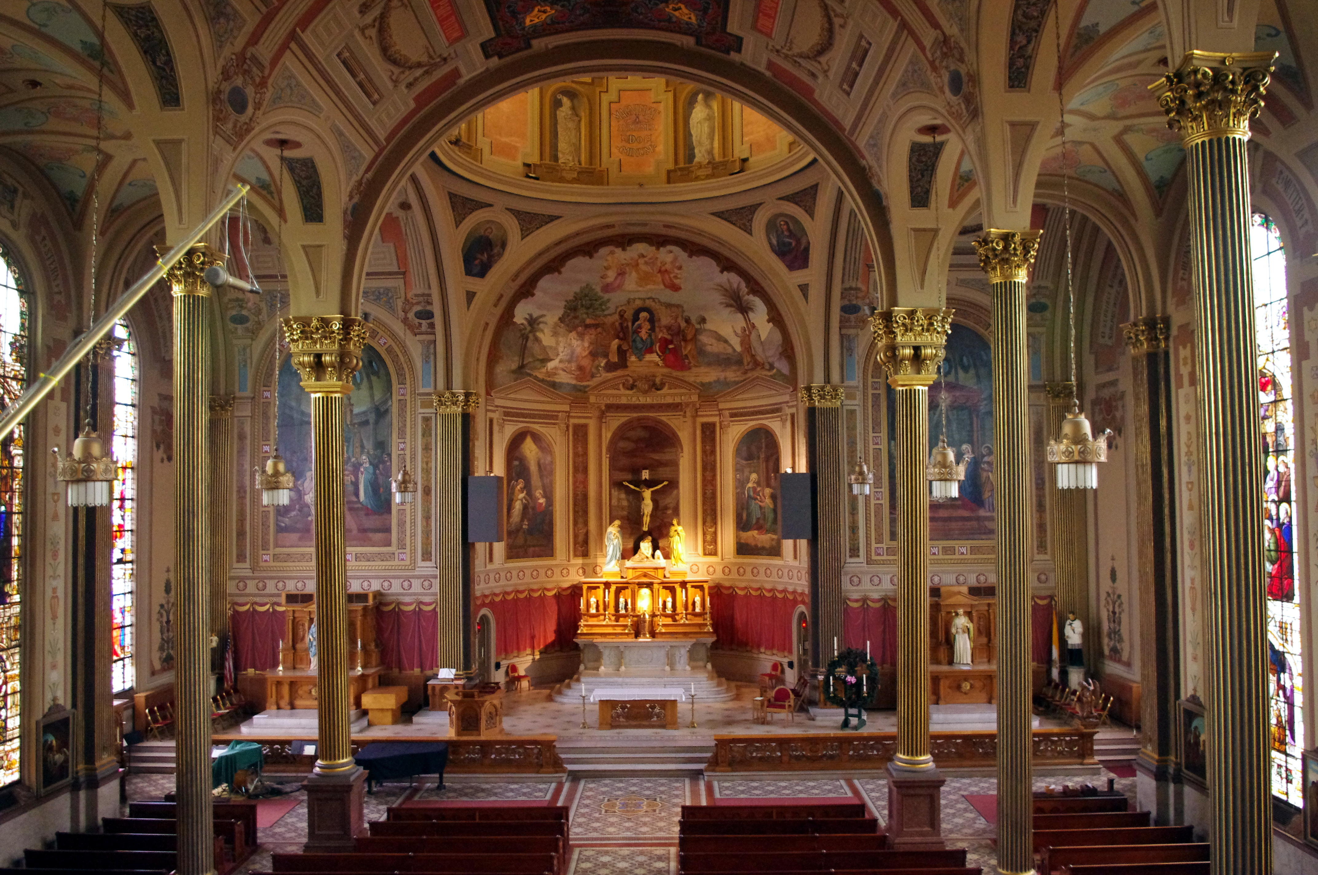 Mother of God Church (Covington, Kentucky), interior, nave viewed from the organ loft